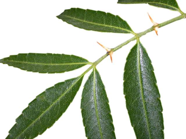 Leaves of "Fagara coco" or "Zanthoxylum coco" (syn.)